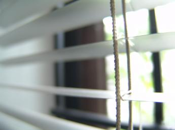 Venitian blind.